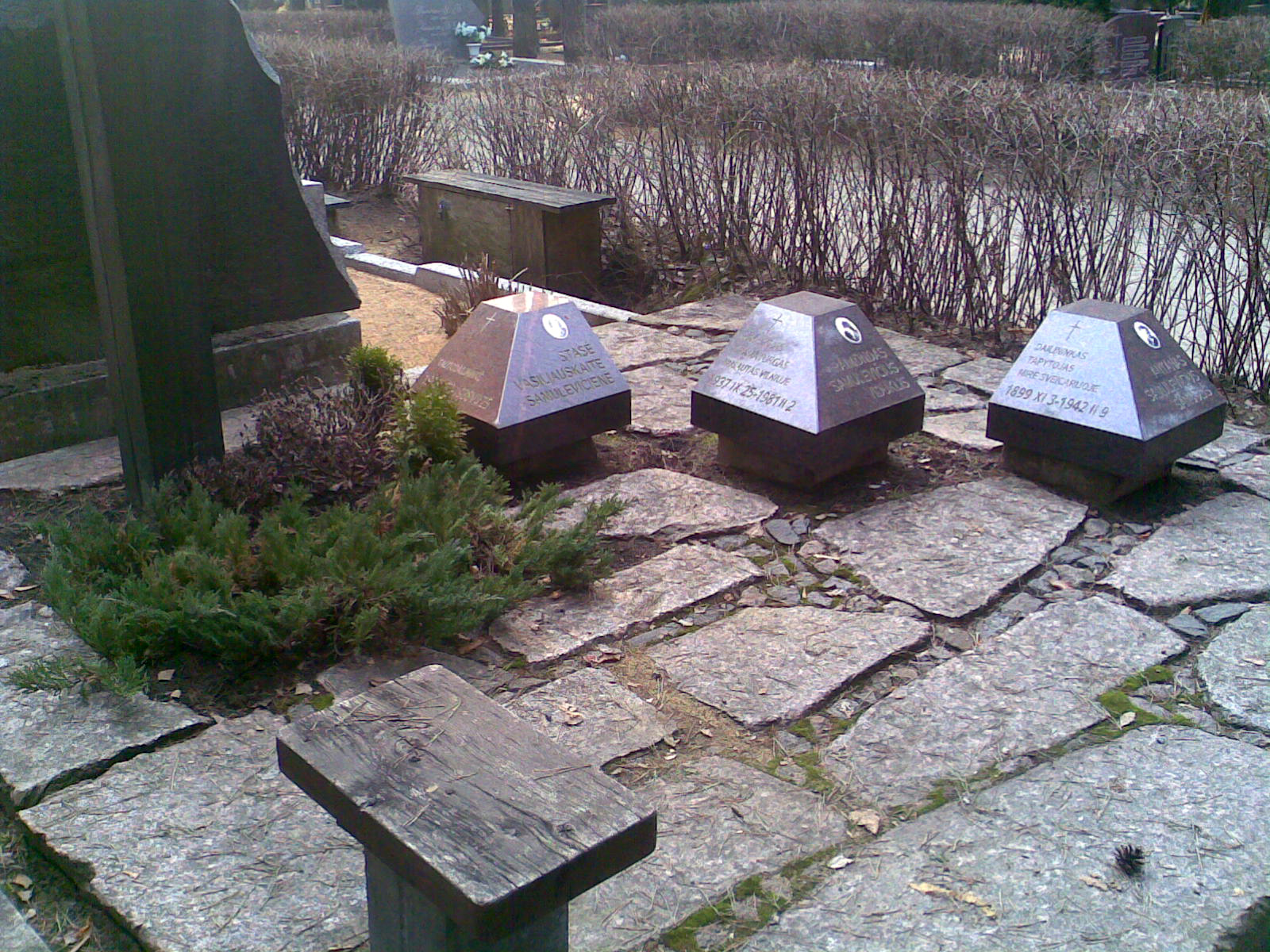 Grave of Raimundas Samulevičius.